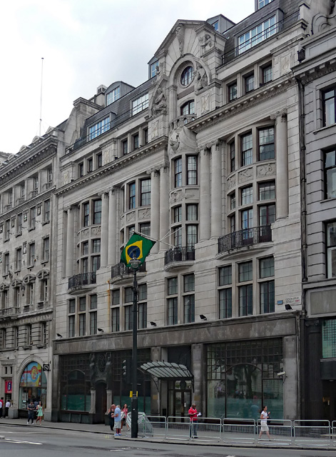 14-16 Cockspur Street. Former London office of the Hamburg America Line